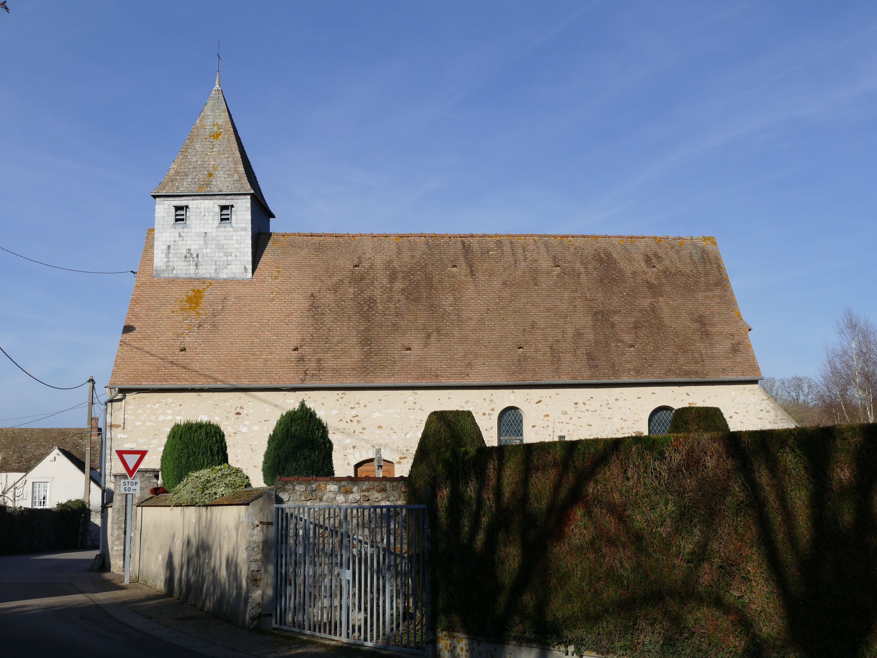 Our Lady's church in Favrieux (Yvelines, Île-de-France, France).